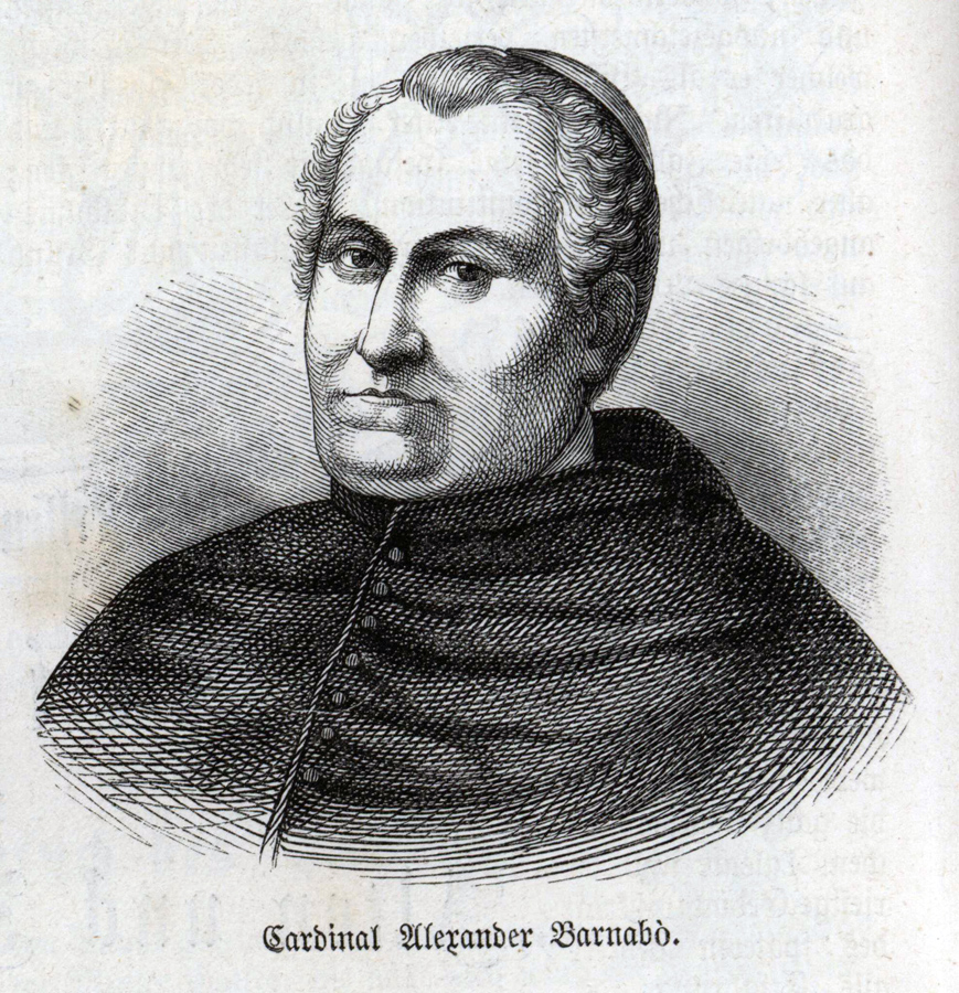 Alessandro Barnabo (1801-1874); Holzstich, 1870